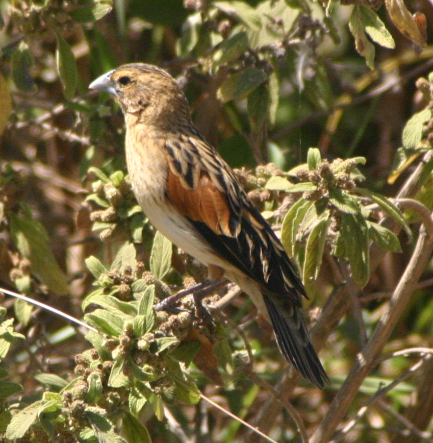 A male Fan-tailed widowbird (in eclipse plumage) at Ngoitokitok Springs, Ngorongoro Crater, Tanzania